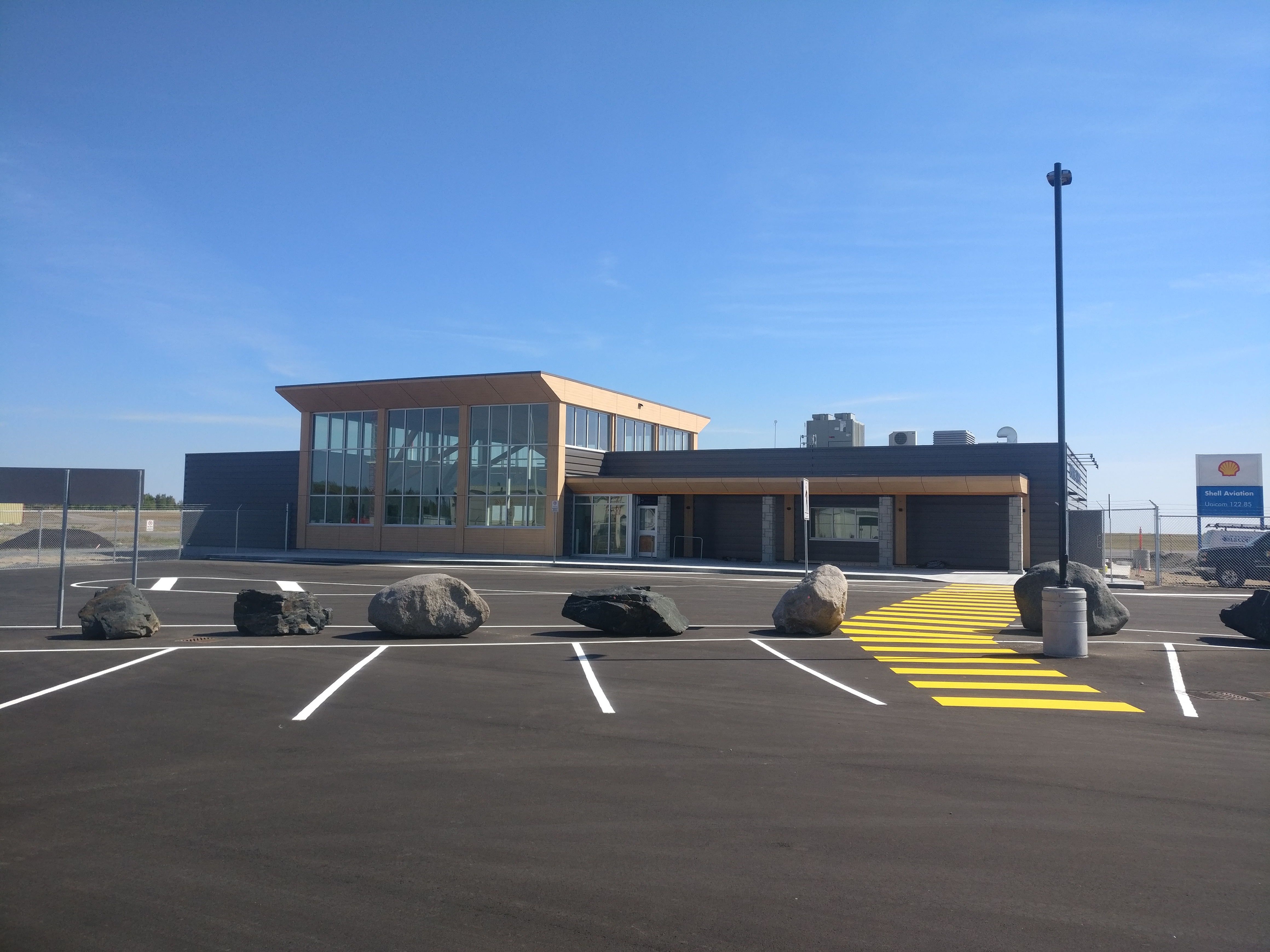 A groundside picture of the newly built McDougald International Terminal